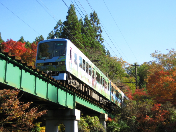 Inside Eizan Electric Railway Type Deo 800 passing "maple tree tunnel" between Ninose and Ichihara